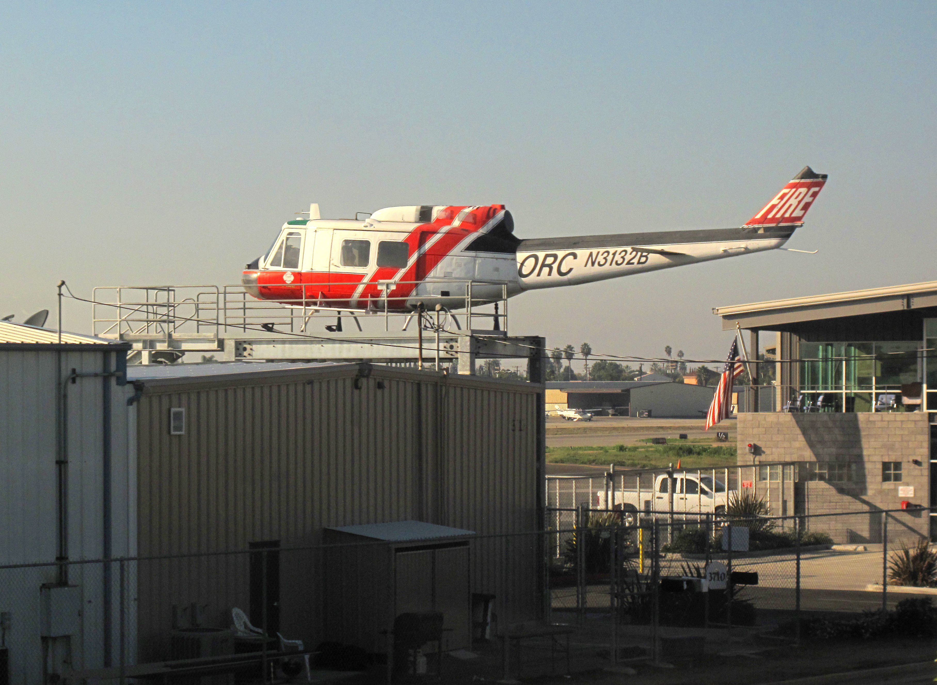 Orange County Fire Authority helicopter (without rotor) parked at Fullerton Municipal Airport, Fullerton, California